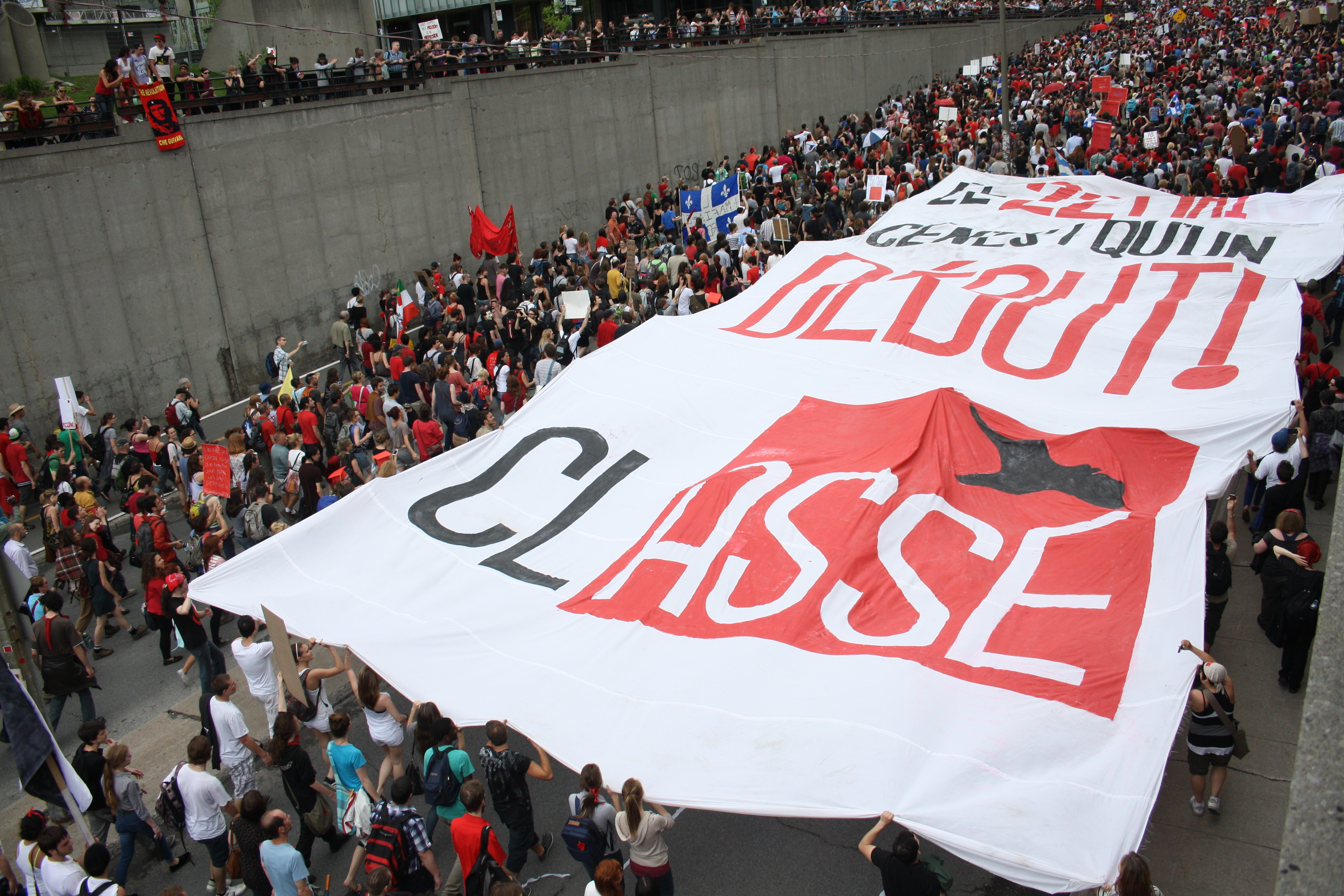 The CLASSE contingent passing under the Berri underpass during the May 22, 2012 demonstration in Montreal.